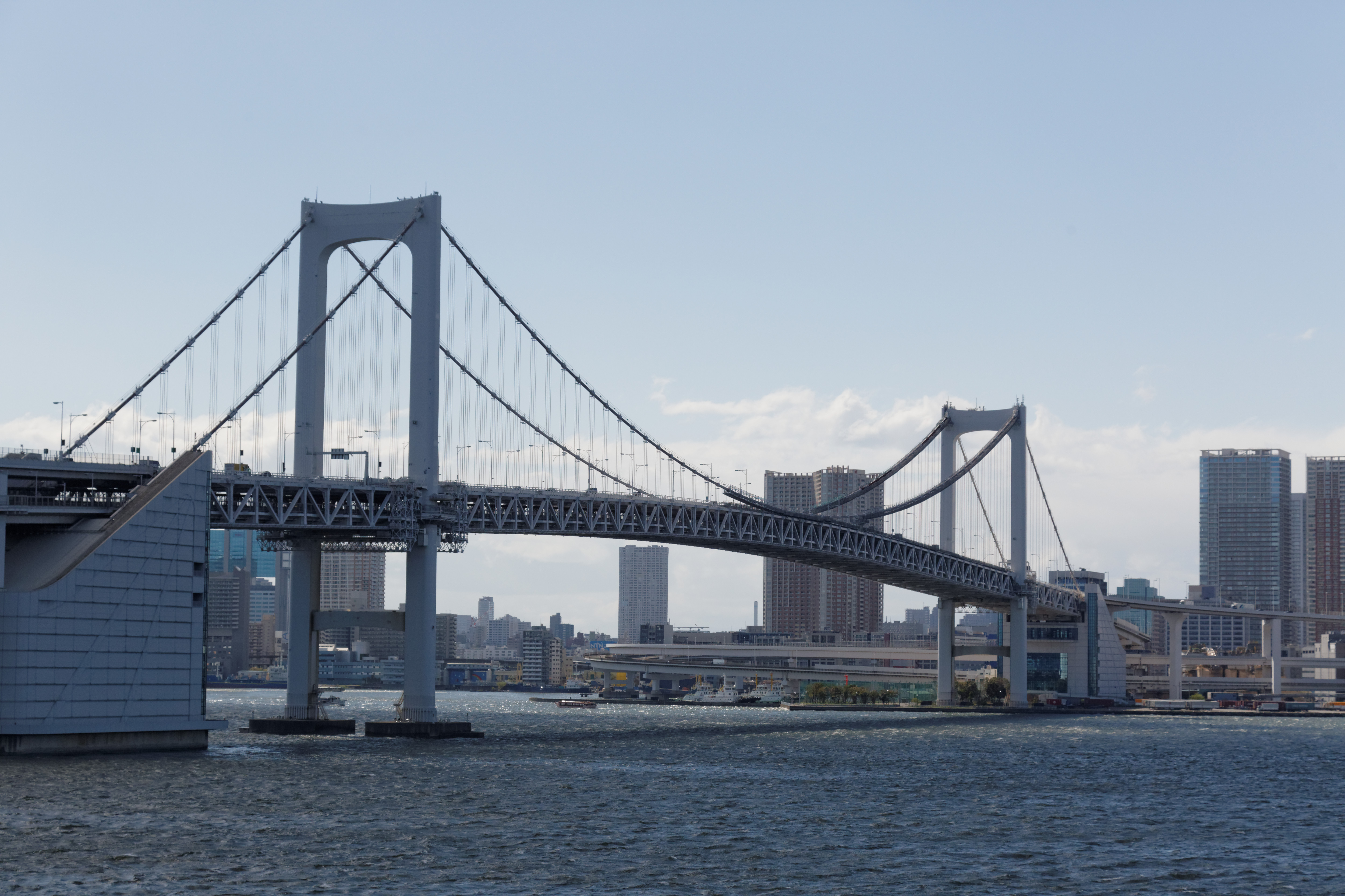 Rainbow Bridge